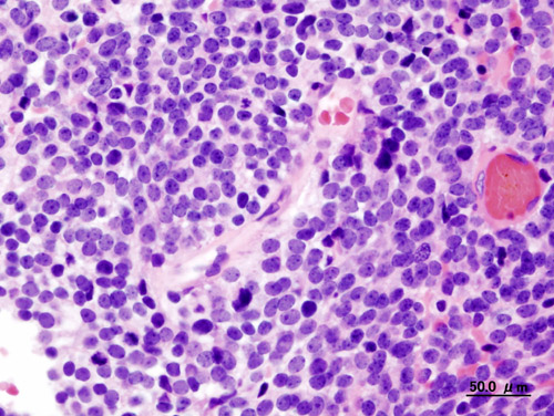 Histopathologic image of medulloblastoma in cerebellar vermis in an adult patient. H & E stain.